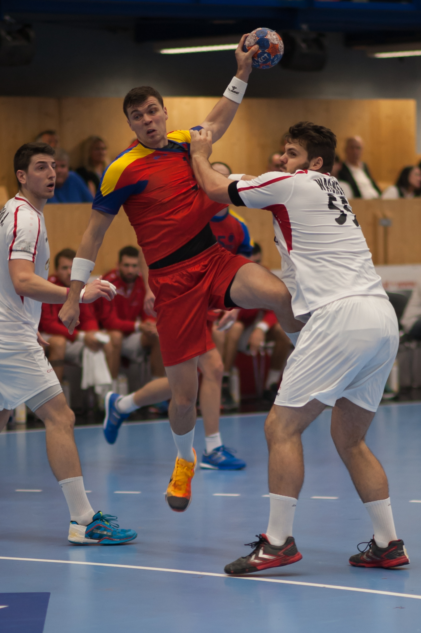 2017 Men's World Championship Qualification Europe Round 1, Austria vg. Romania, Maria Enzersdorf, Lower Austria, 2015-11-04